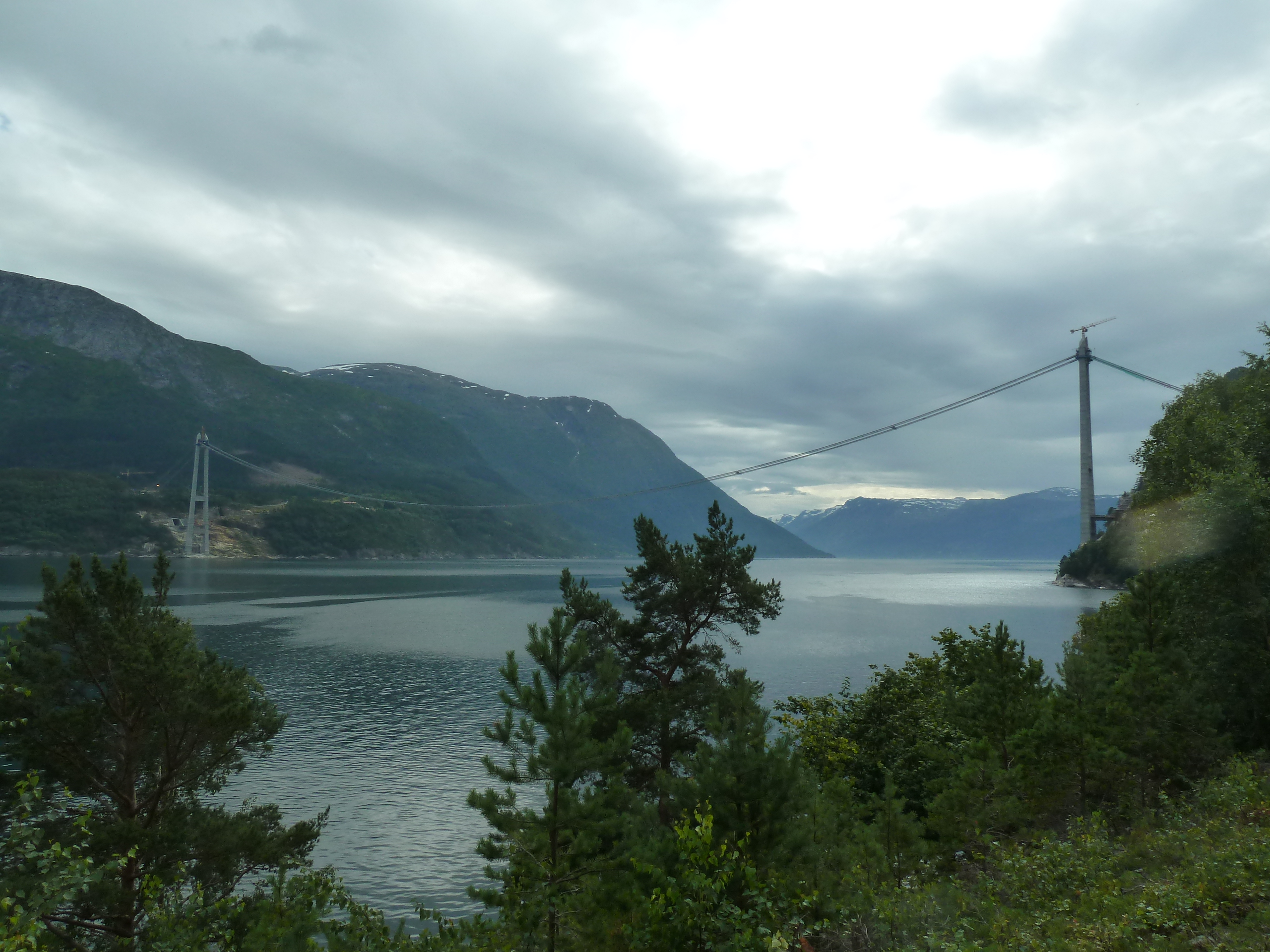 Hardanger bridge, Norway, under construction